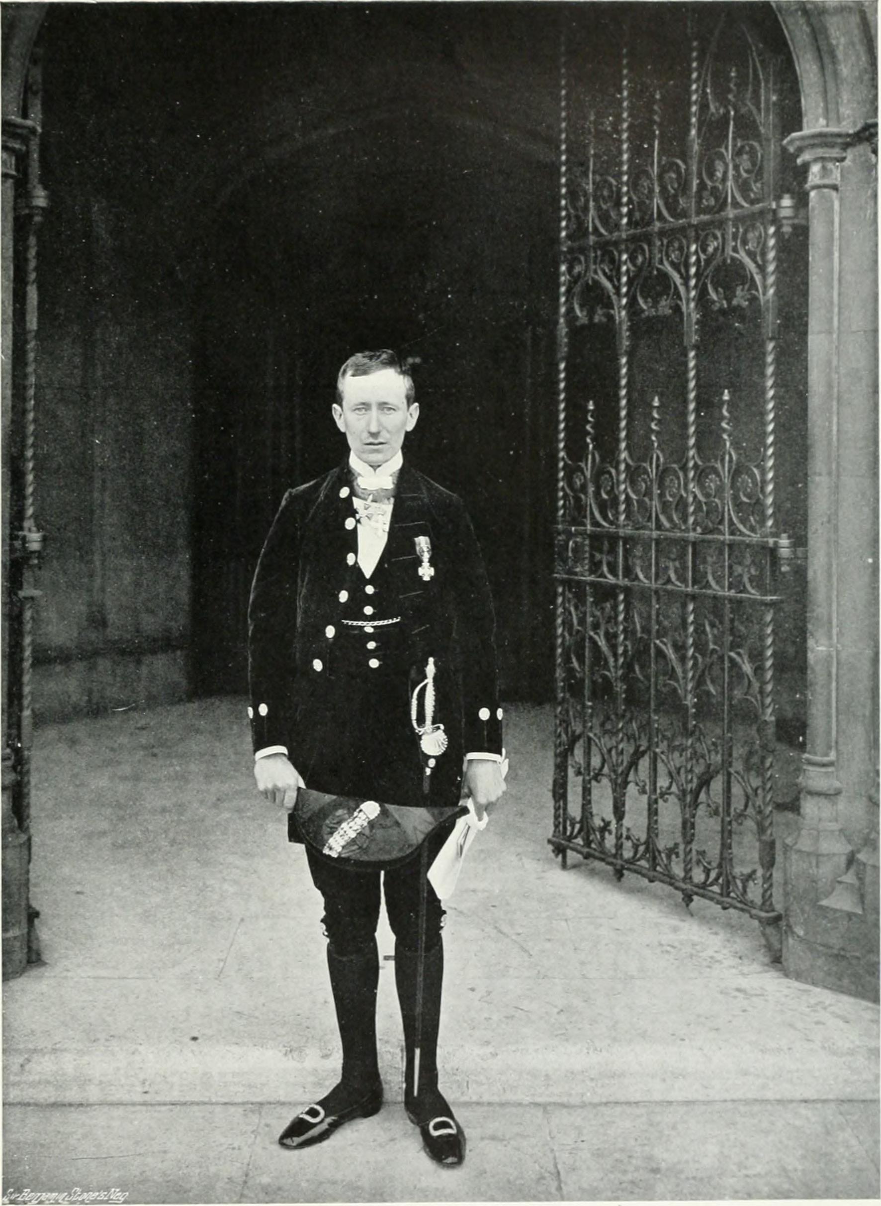 Title: Sir Benjamin Stone's pictures; records of national life and history reproduced from the collection of photographs made by Sir Benjamin Stone, M.P Year: 1906 (1900s) Authors: Stone, John Benjamin, Sir, 1838-1914 MacDonagh, Michael, 1862-1946 Subjects: Great Britain. Parliament Statesmen Publisher: London : Cassell Text Appearing Before Image: hrough space, and affect a sensitive instrument, tunedto receive its vibrations, several miles away. Thisdiscovery gave to the youthful Marconi the idea of theabolition of the telegraph wire, as but a clumsy devicefor instant communication between distant lands. Itexercised a powerful fascination over his imagination,and spurred the inventive faculty and the delight inelectrical experiments which he had displayed even inhis earliest schoolboy days. After years of painstaking and exhaustive investi-gations on his fathers estate in Italy, he invented twoinstruments of weird and almost uncanny powers—a transmitter which sends a message on a magneticwave from one continent to another, across thousands ofmiles of sea, undisturbed even by the swift and over-2)owering rush and roar of the tempest; and a receiver,which registers the communication almost the momentafter it has been despatched! Thus did ChevalierMarconi rise to a position of the highest repute amongscientific discoverers. s« Text Appearing After Image: '